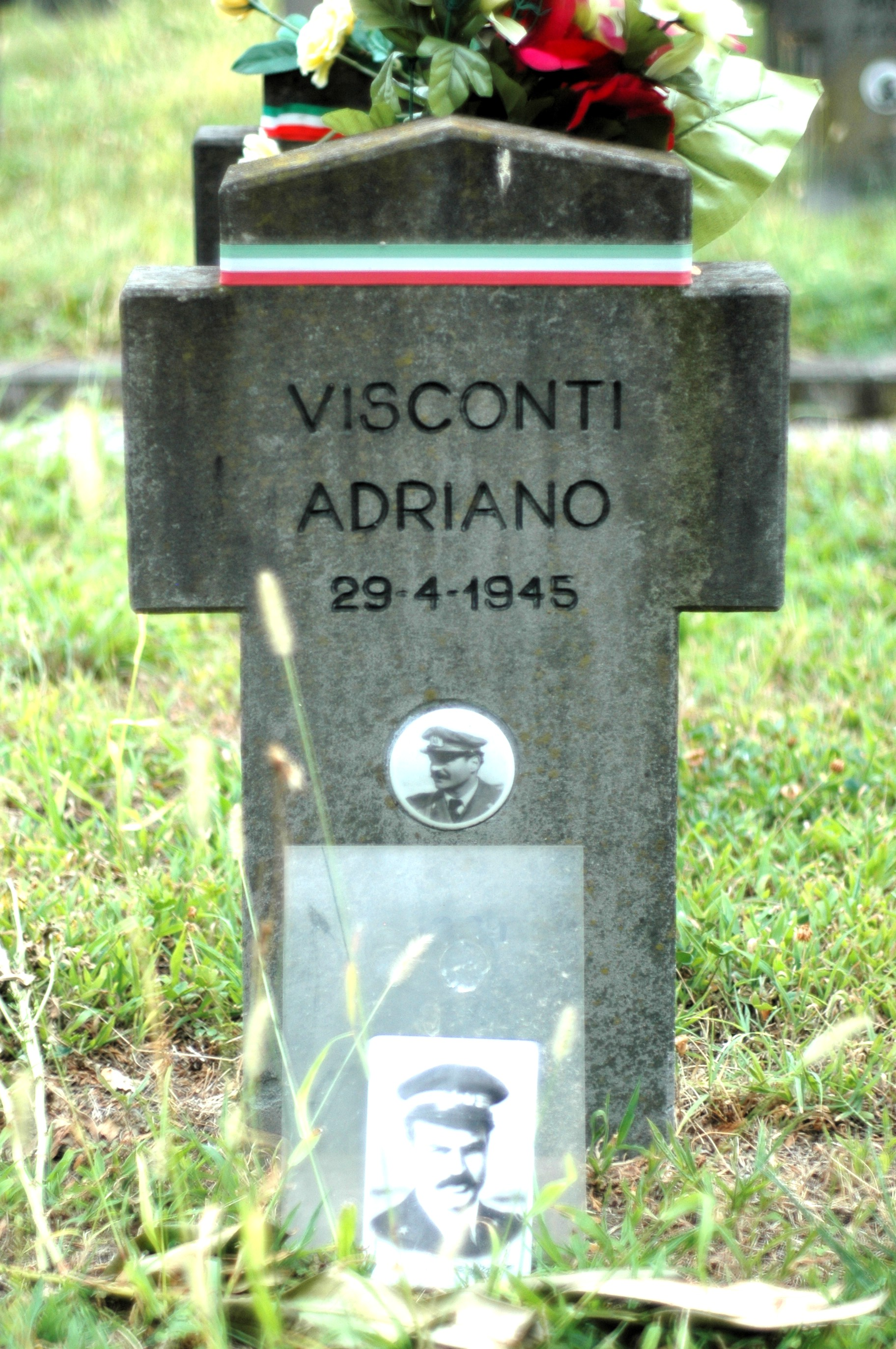 Grave of Adriano Visconti in the Cimitero Maggiore in Milan